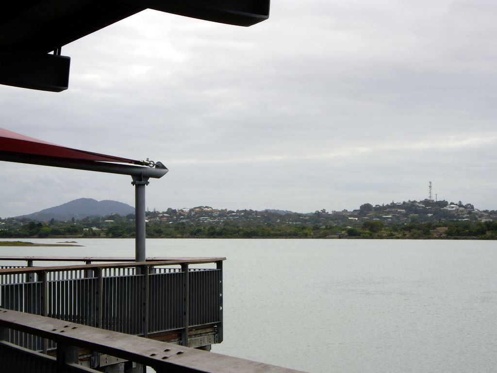 Looking north from the Bluewater Trail over the Pioneer River to Mt Plesant